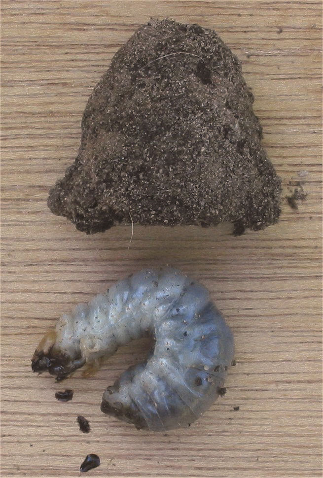 Melolontha melolontha with cocoon